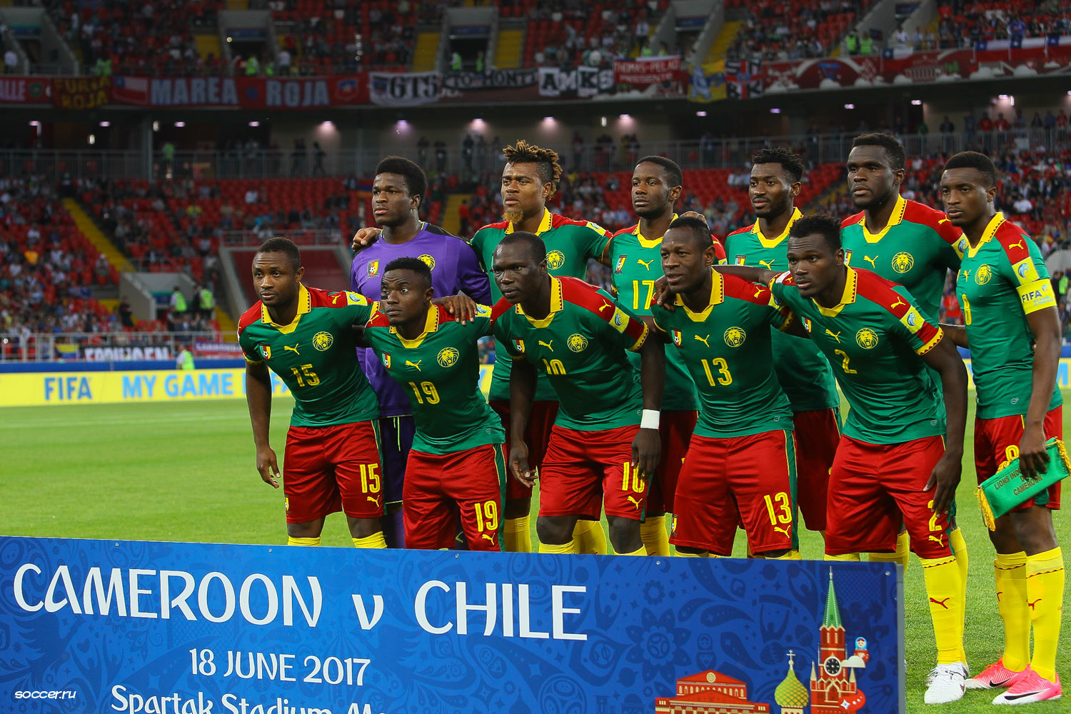 Cameroon vs Chile (0-2). FIFA Confederations Cup 2017